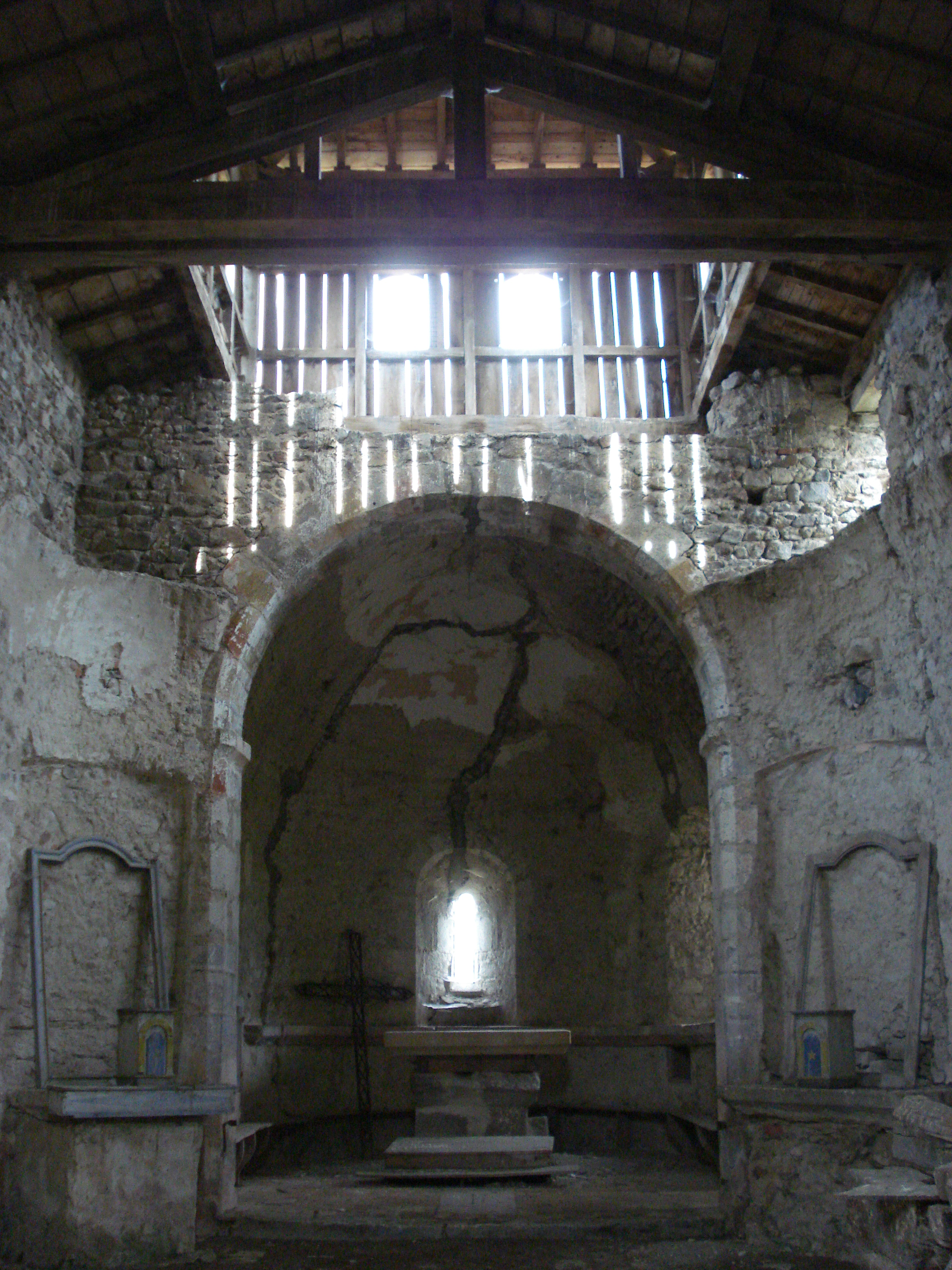 Ste-Foye-St-Sulpice, bad state of St.Sulpice chapel